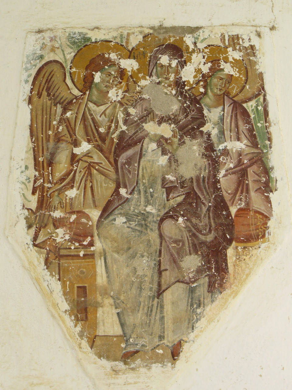 Frescoes in the church in the village of Lykhny, Abkhazia